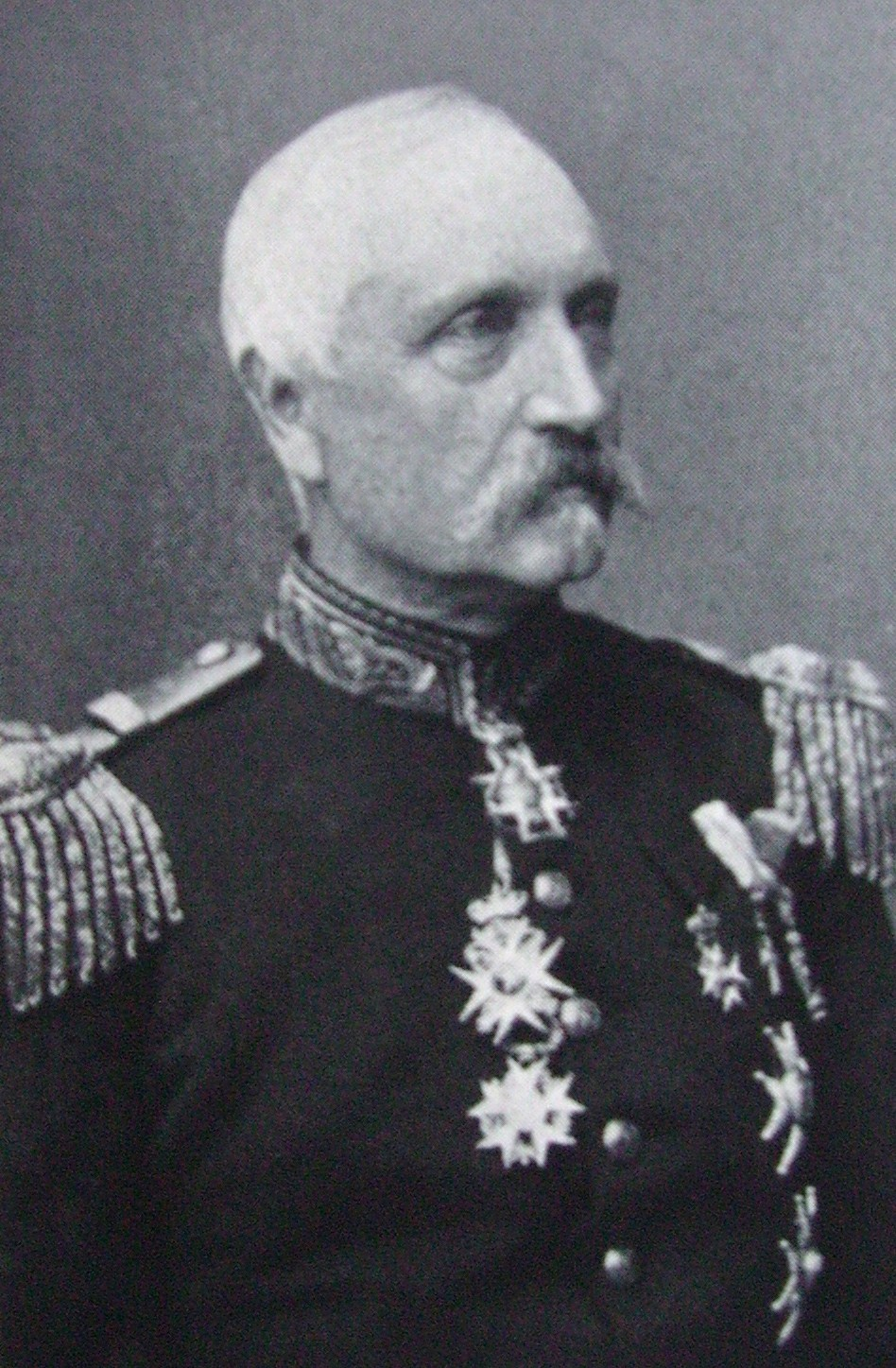 Picture of Malcolm Hamilton, Swedish officer